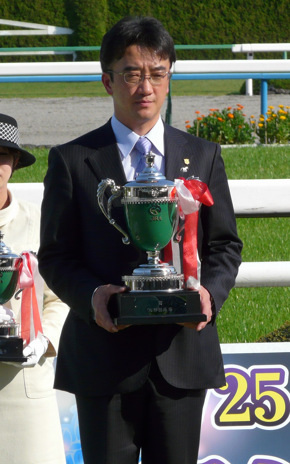 Yasushi-Shono20100425